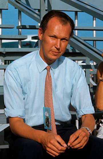 Vittorio Emanuele, Prince of Naples. Cape Canaveral, 16th July 1969